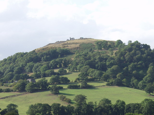 Castell Dinas Brân, Llangollen. Remains of the castle atop a small hill just north of Llangollen.